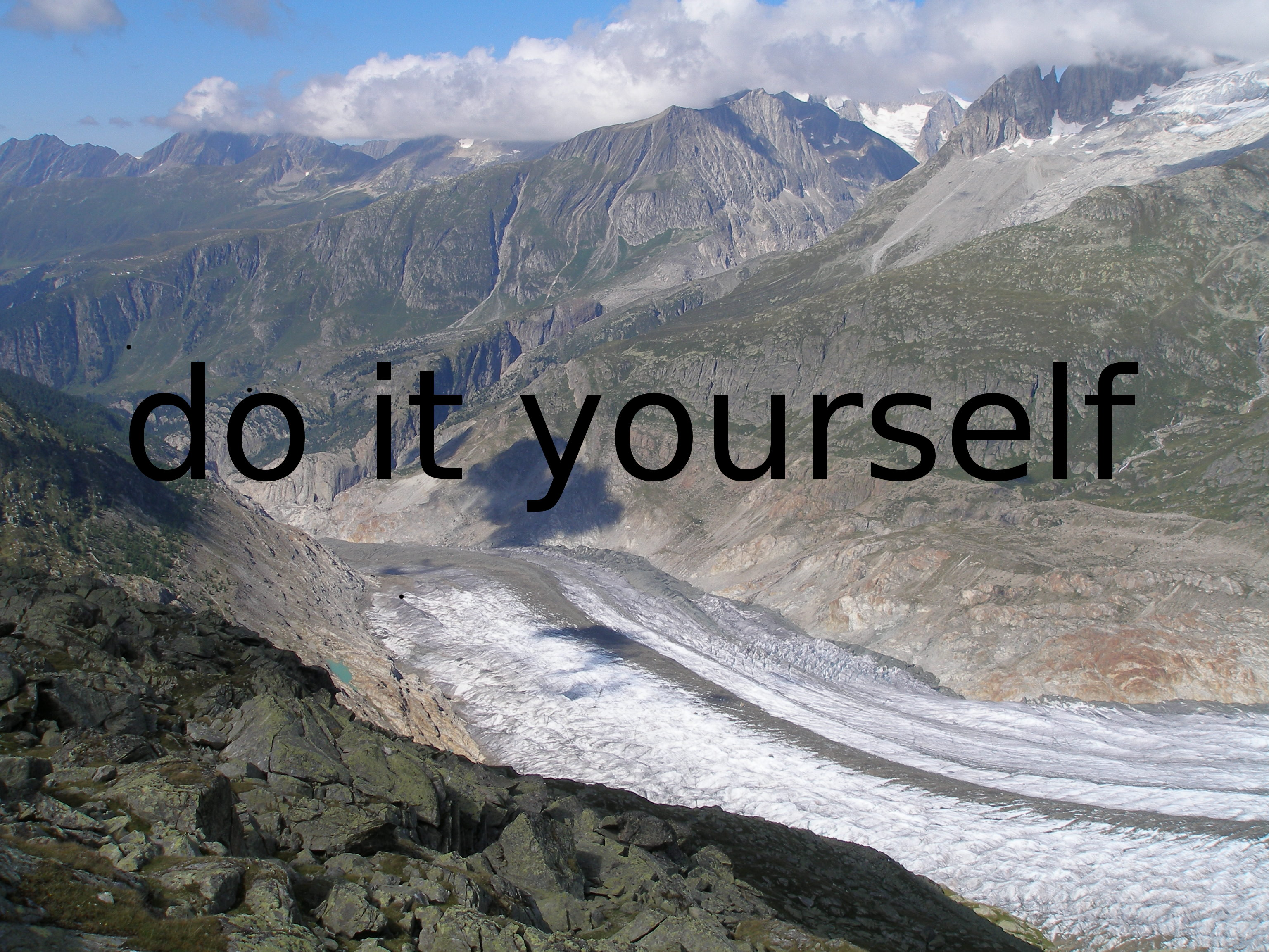 "fluxus" illustration by robert grassi on purpose for a wikipedia page